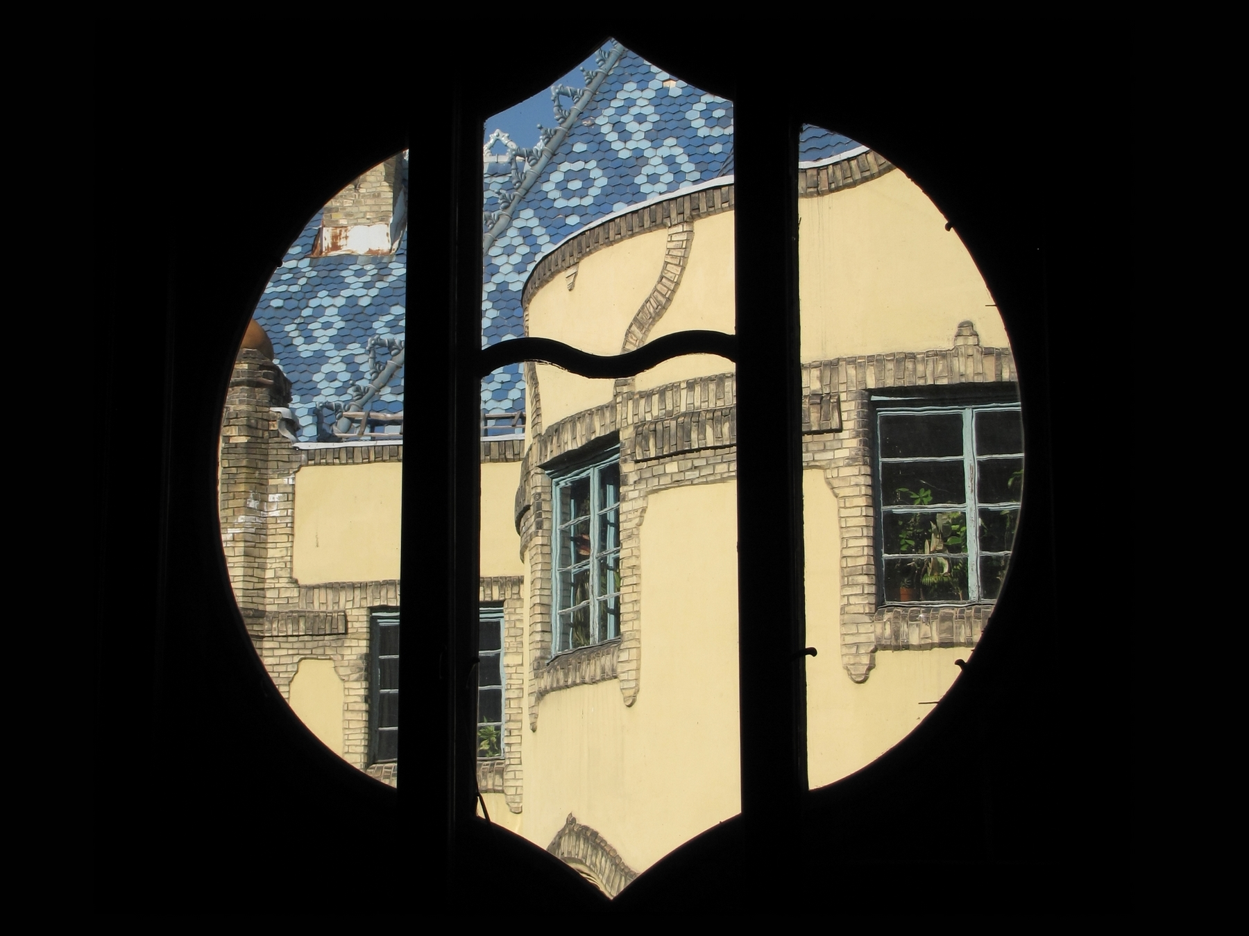 The building of the Geological and Geophysical Institute of Hungary designed by Ödön Lechner, built in 1899